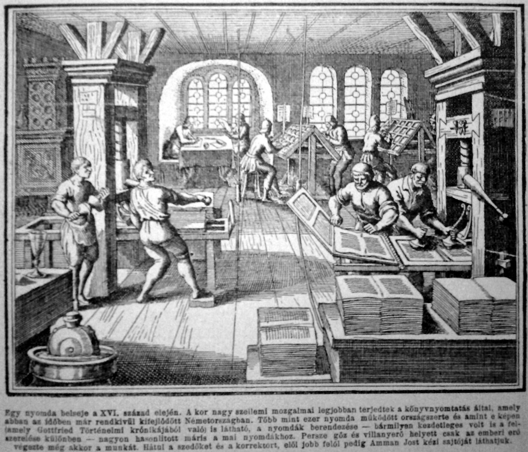 Printing press in 16th century in Germany